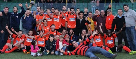 Swieqi United promotion